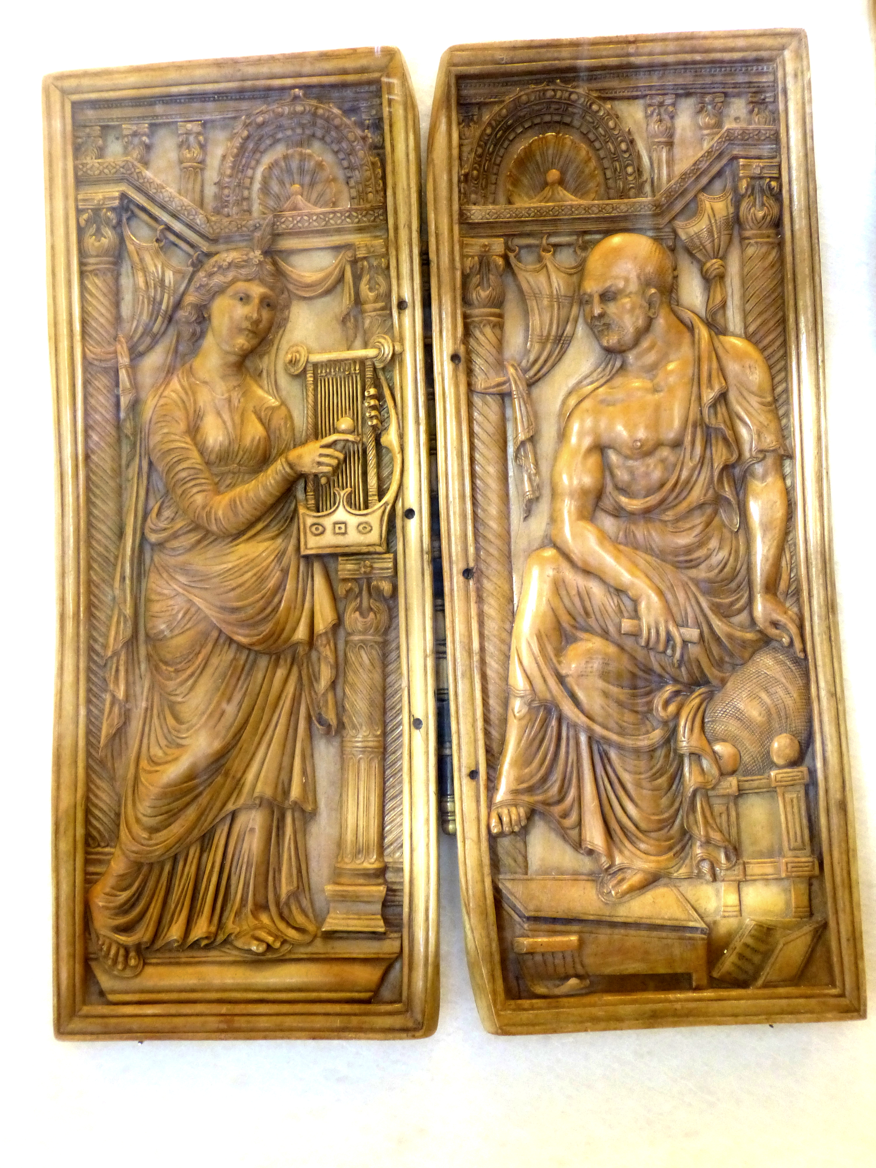 Frauenchiemsee abbey ( Upper Bavaria ). Saint Michael chapel in the gatehouse - Museum: Ivory diptych ( 5th century ) showing poet and muse ( Replica of an original from the treasury of Monza Cathedral )